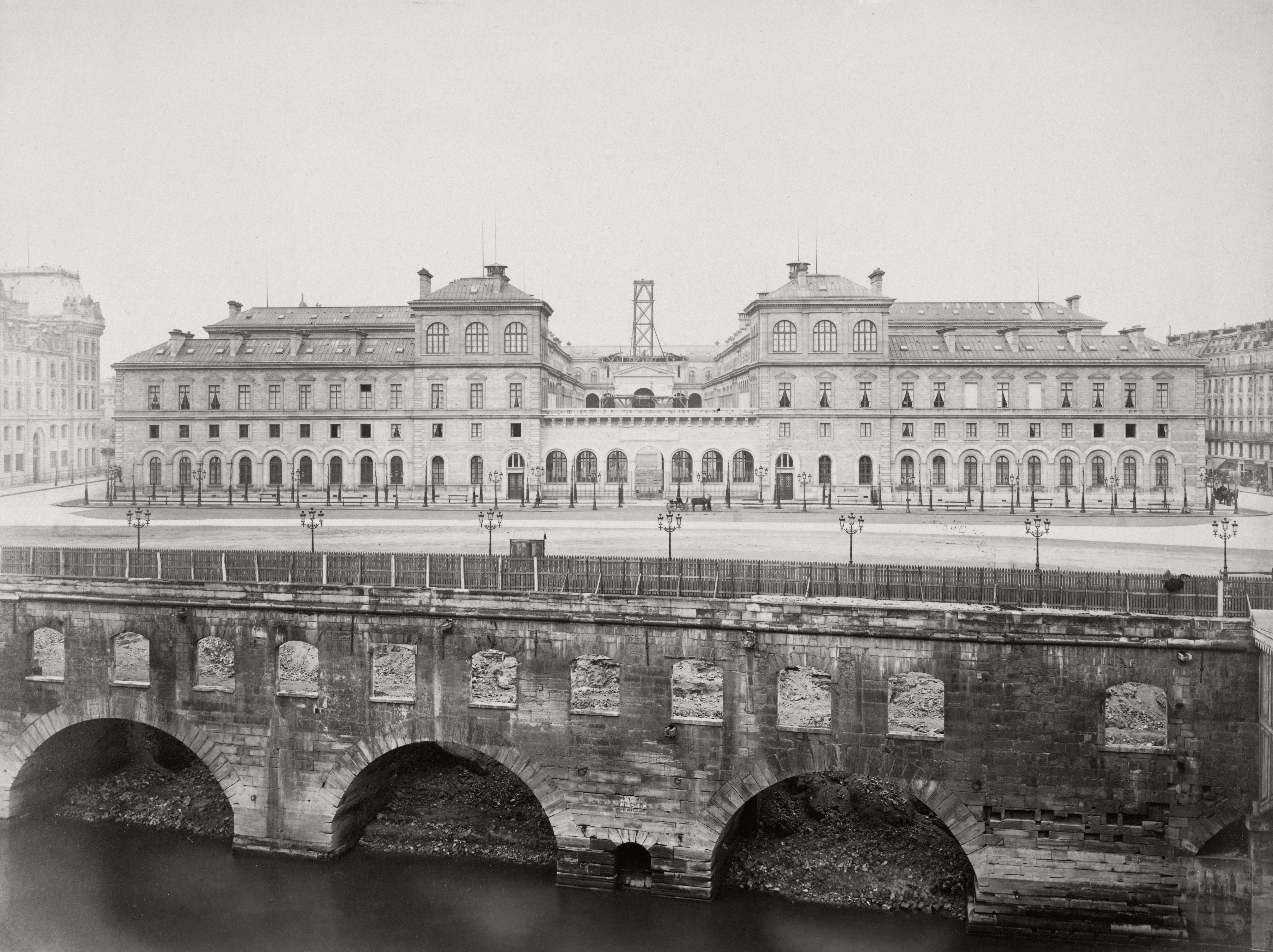 Portique à l'extrémité de la cour d'honneur: View of courtyard, with river in foreground, gantry visible on open roof of building.